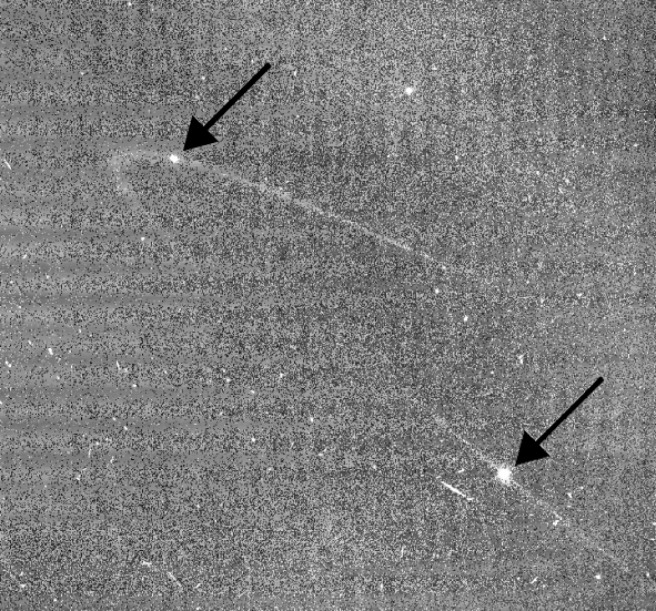 Recent Cassini images show arcs of material co-orbiting with the Saturnian moons Anthe and Methone. Arrows indicate the positions of Anthe, at top left, and Methone, at bottom right. Micrometeoroid impacts on the moons are the likely source of the arc material. Cassini imaging scientists believe the process that maintains the Anthe and Methone arcs is similar to that which maintains the arc in the G ring (see Rounding the Corner). The general brightness of the image (along with the faint horizontal banding pattern) results from the long exposure time of 15 seconds required to capture the extremely faint ring arc and the processing needed to enhance its visibility (which also enhances the digital background noise in the image). The image was digitally processed to remove most of the background noise. This view looks toward the un-illuminated side of the rings from about 2 degrees above the ringplane. The image was taken in visible light with the Cassini spacecraft narrow-angle camera on Oct. 29, 2007. The view was acquired at a distance of approximately 2.3 million kilometers (1.4 million miles) from Anthe and 2.2 million kilometers (1.4 million miles) from Methone. Image scale is 14 kilometers (9 miles) per pixel on Anthe and 13 kilometers (8 miles) on Methone. The Cassini-Huygens mission is a cooperative project of NASA, the European Space Agency and the Italian Space Agency. The Jet Propulsion Laboratory, a division of the California Institute of Technology in Pasadena, manages the mission for NASA's Science Mission Directorate, Washington, D.C. The Cassini orbiter and its two onboard cameras were designed, developed and assembled at JPL. The imaging operations center is based at the Space Science Institute in Boulder, Colo. For more information about the Cassini-Huygens mission visit . The Cassini imaging team homepage is at .